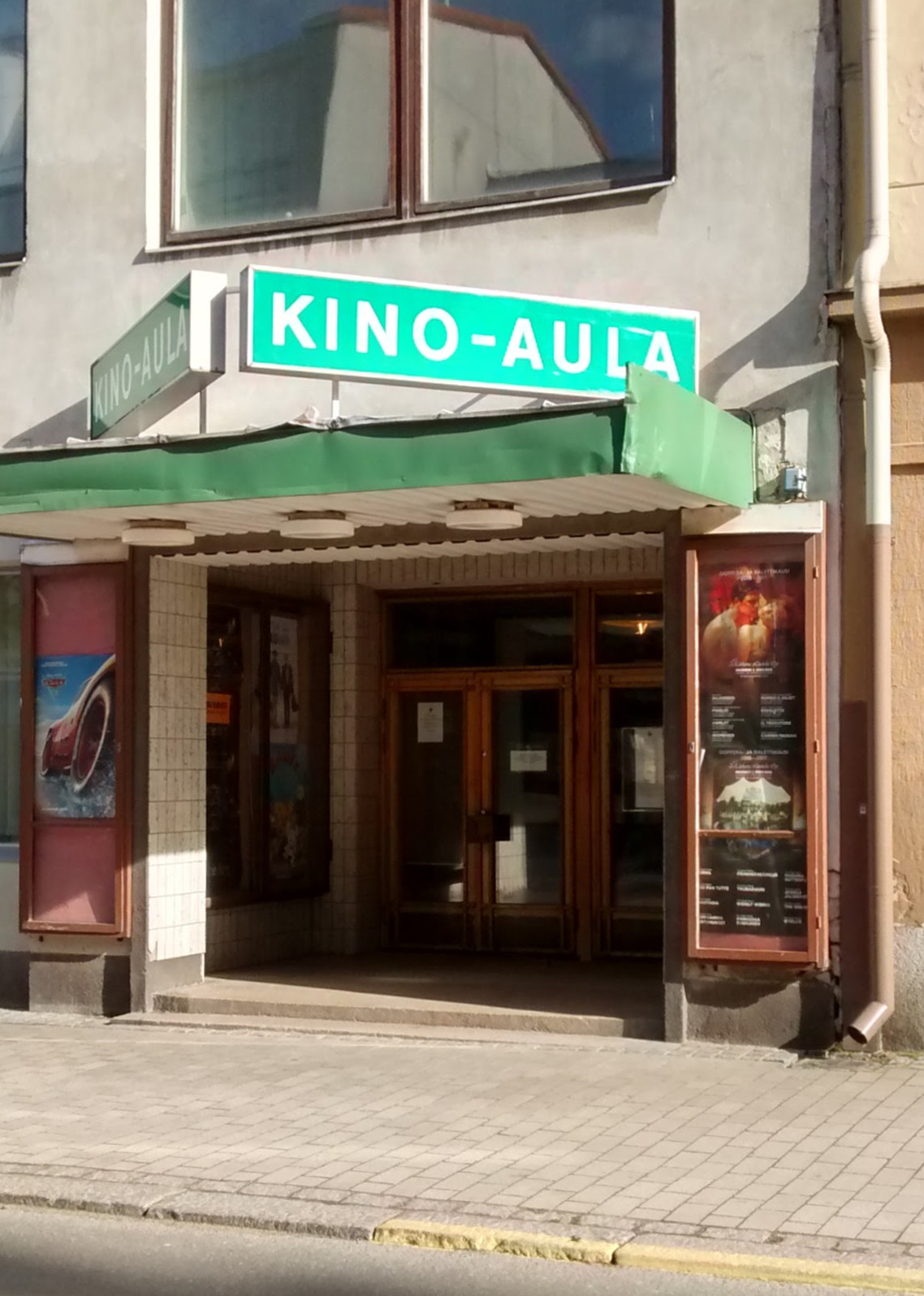 Cinema Kino-Aula. Valtakatu, Lappeenranta.